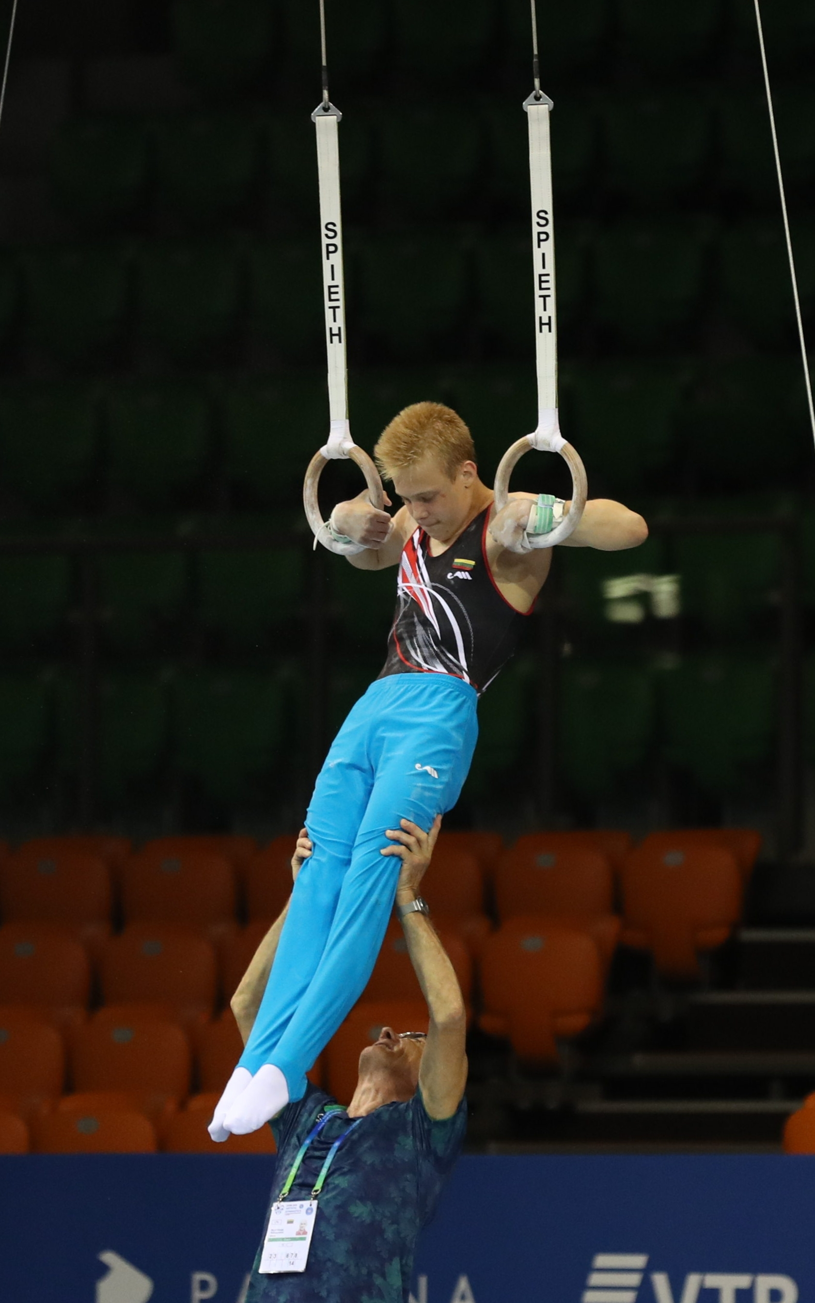 Still rings exercise of subdivision 1 during the boys' all-around competition at the 1st FIG Artistic Gymnastics Junior World Championships on 27 June 2019 in Győr, Hungary. Depicted: Gytis Chasazyrovas.